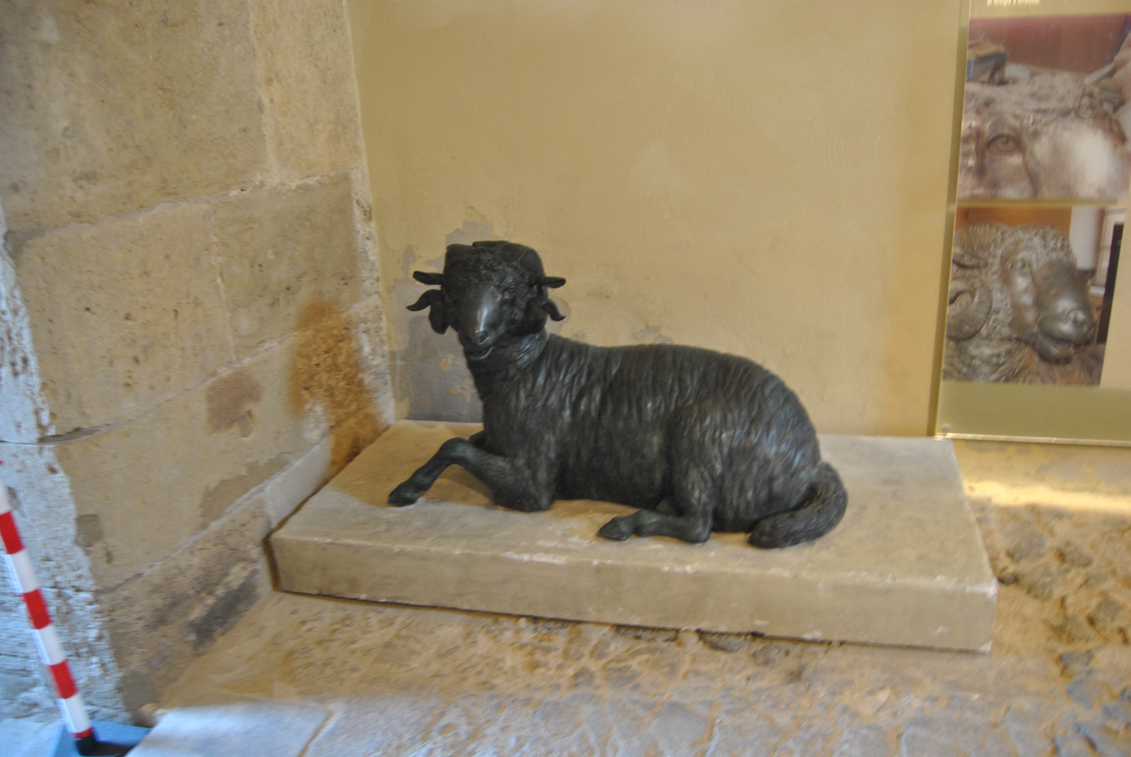 Ariete_in_bronzo,_sec._III_a.C._(copy)_-_Castel_Maniace/2.JPG